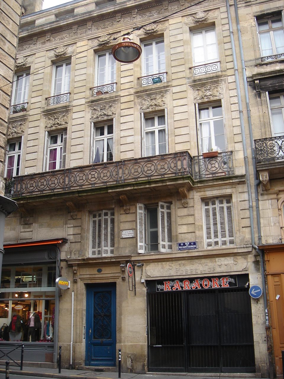 Façade of the house where François Mauriac was born (86, rue du Pas-Saint-Georges, Bordeaux)